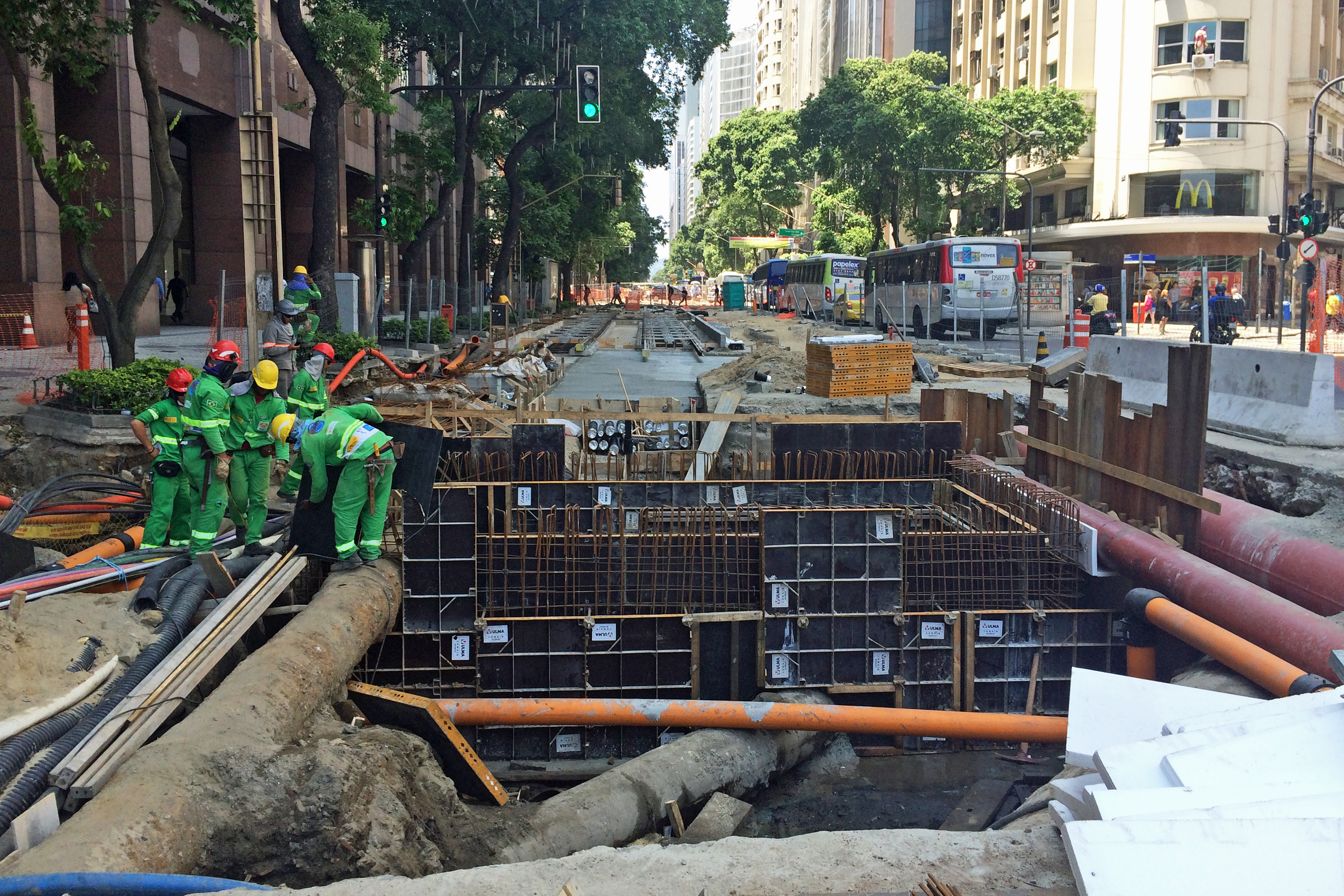 Construction works of the LRT tracks at the beginning of Rio Branco Avenue, Rio de Janeiro.